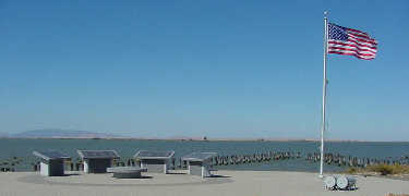 Port Chicago Naval Magazine National Memorial on the grounds of the Concord Naval Weapons Station near Concord, California (38°3′27″N 122°1′47″W / 38.0575°N 122.02972°W).